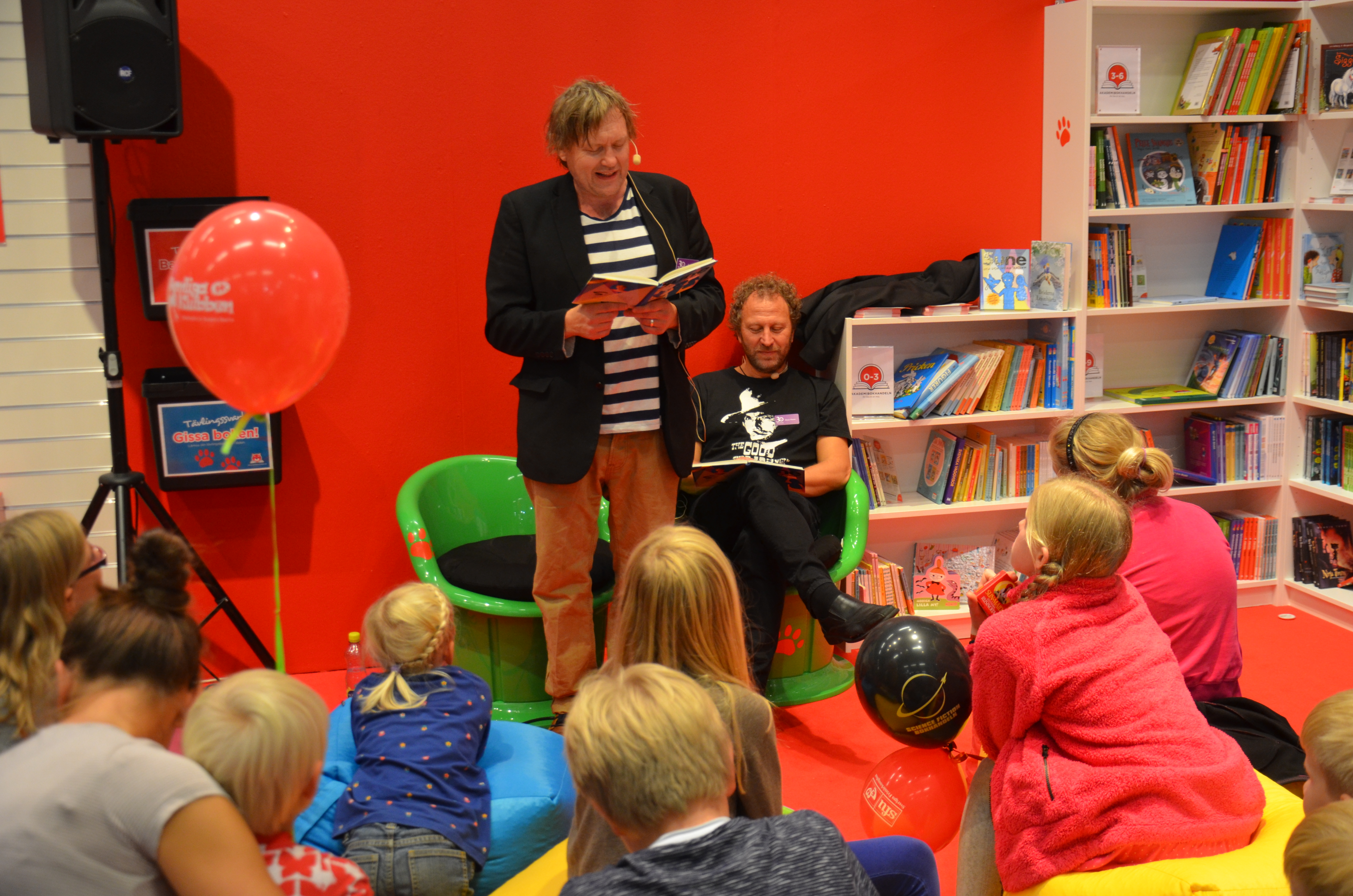 Anders Jacobsson och Sören Olsson på högläsning ur Sune-bok på Bokmässan i Göteborg 2014